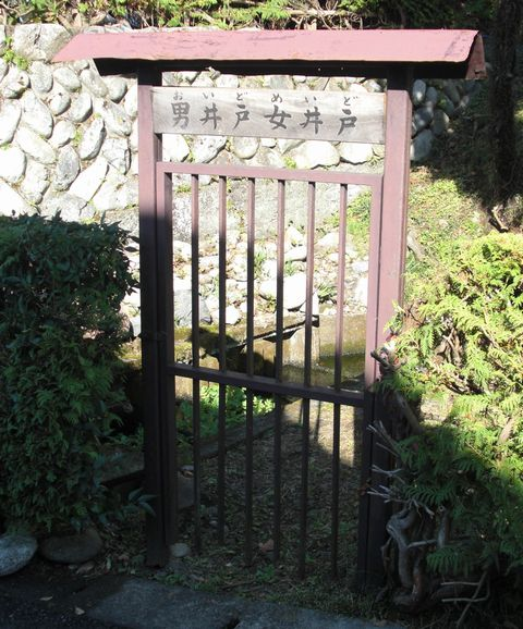 Oido-meido (Ōme, Tokyo, Japan)